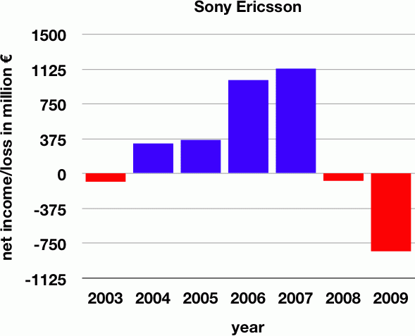 Annual net income (loss) of Sony Ericsson from 2003 to 2009 accordings to press releases at